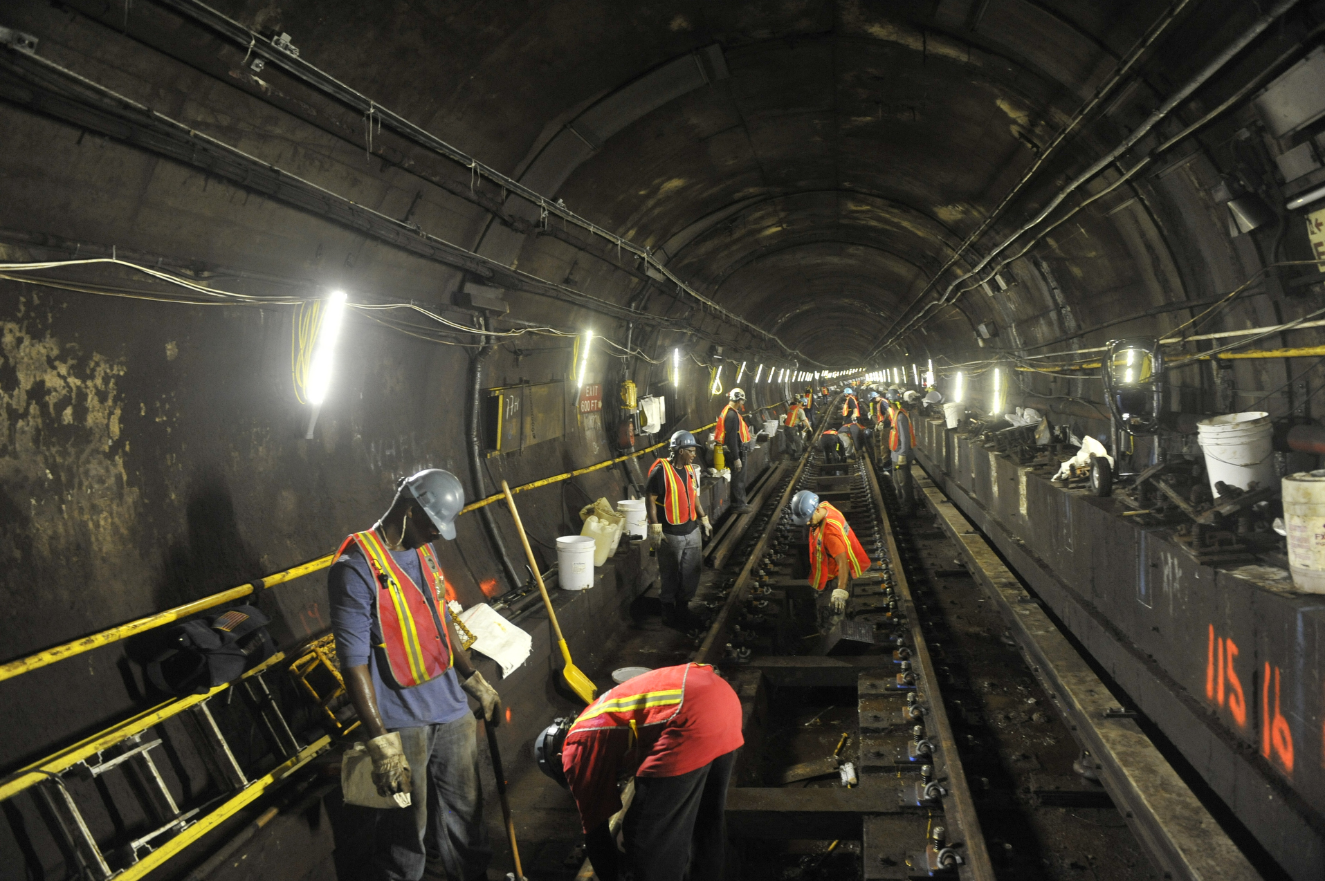 Work continued in the Greenpoint Tubes on the weekend of August 9, 2013 as damage from Hurricane Sandy is repaired. Track crew secures rails. Photo: Marc A. Hermann / MTA New York City Transit